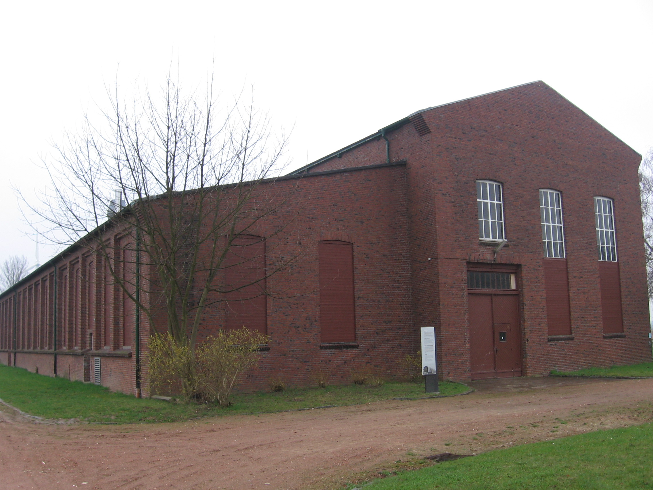 Former hammer-workshop of the German concentration camp Neuengamme.